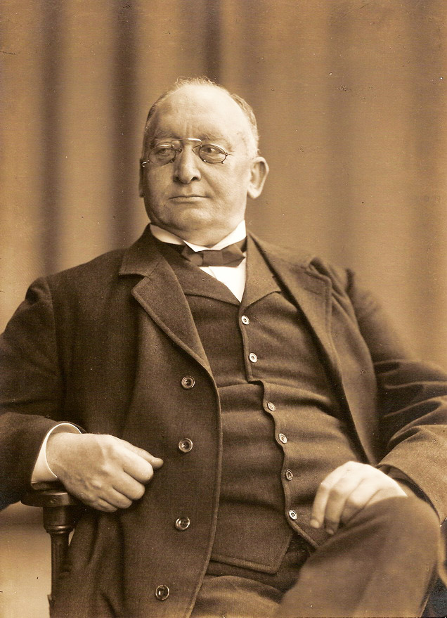 Hans Bendz (1851-1914), Swedish professor of pathology and anatomy at Lund University.